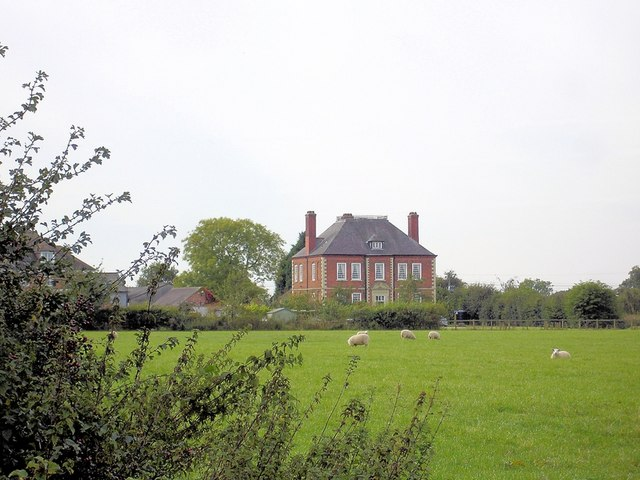 Wimboldsley - Lea Hall Wimboldsley - Lea Hall from Wimboldsley footpath 1 where it crosses the hall drive.